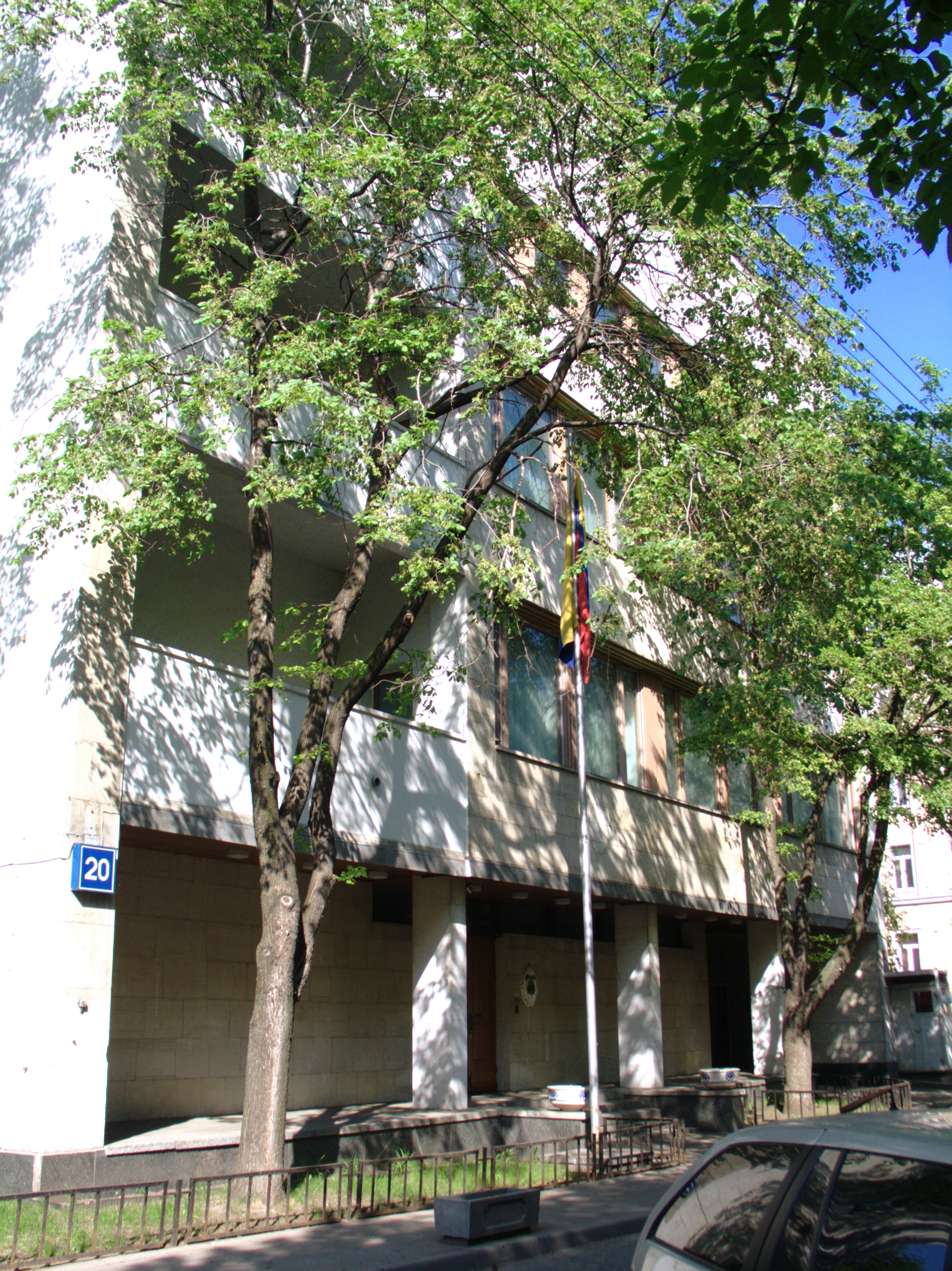 Building of the Embassy of Columbia in Moscow (Burdenko st 20).